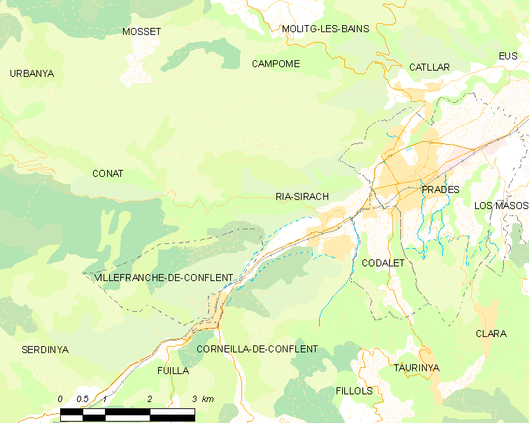 Map of French municipality